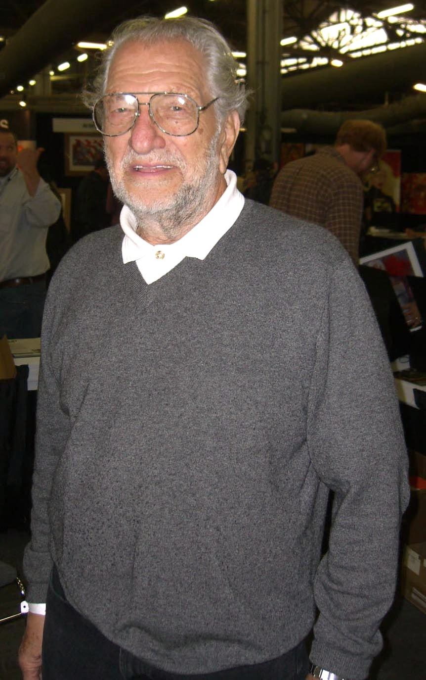 Comic book creator Joe Kubert at the Big Apple Convention in Manhattan. This photo was created by Luigi Novi. It is not in the public domain, and use of this file outside of the licensing terms is a copyright violation.